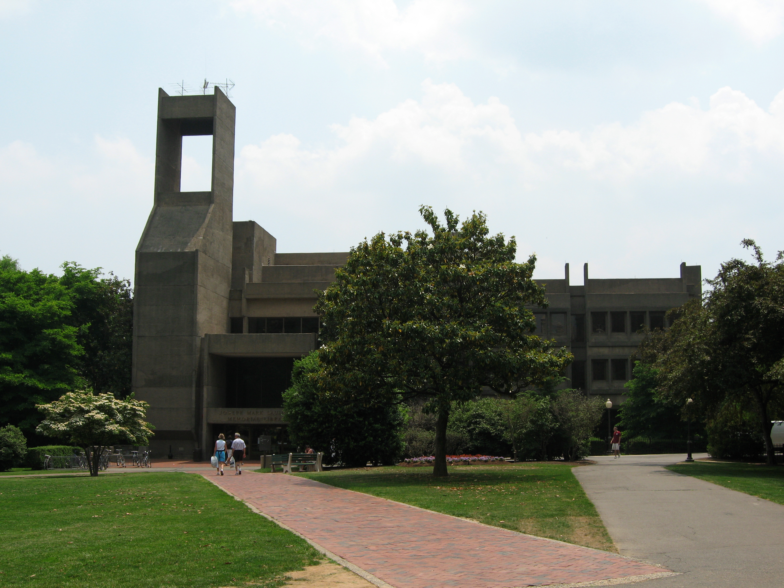 The main campus library at Georgetown University. It was designed to look like a modern version of Healy Hall, with the spire echoing the clock tower on Healy.